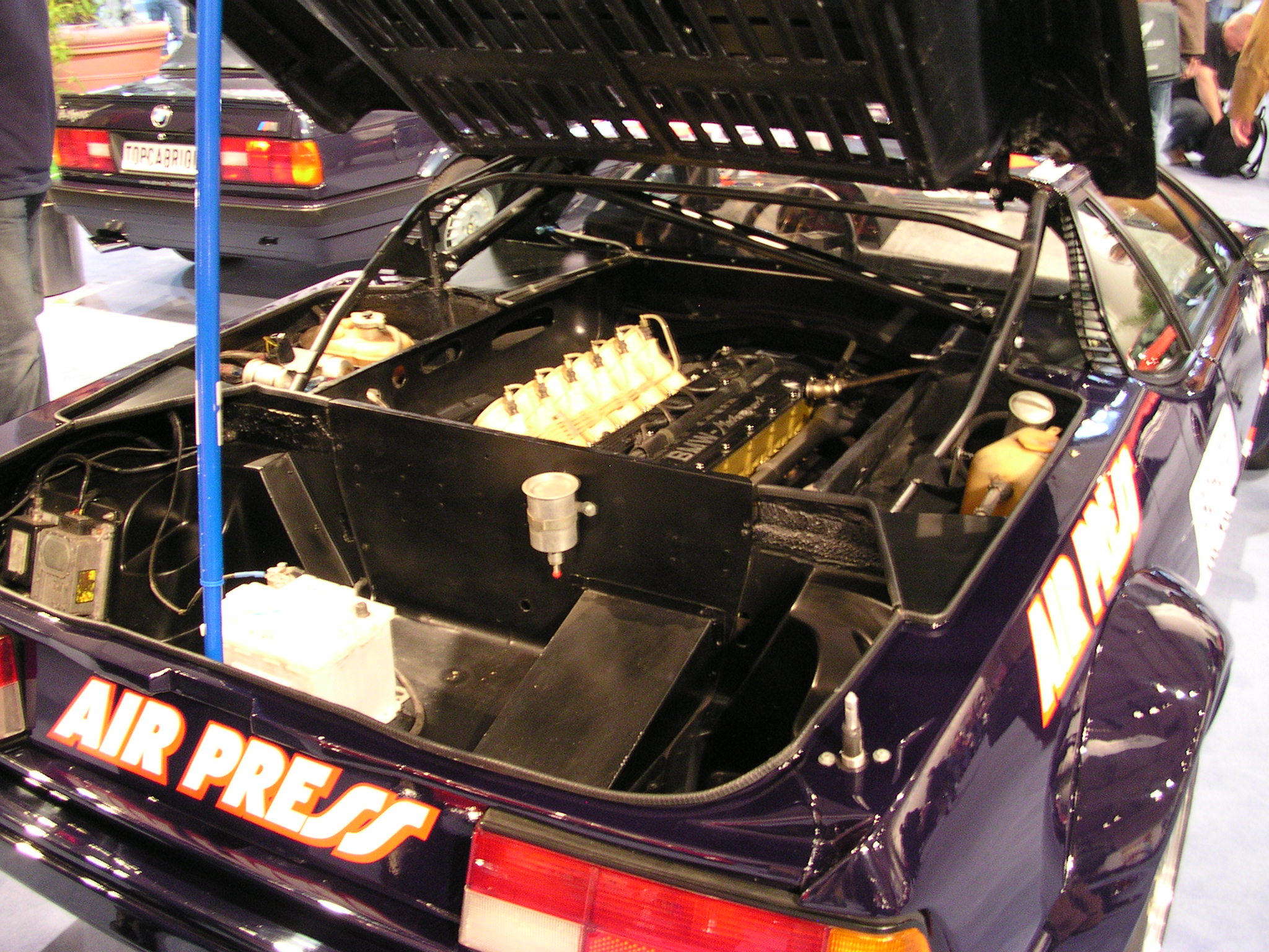 Essen Techno-Classica 2007, BMW M1